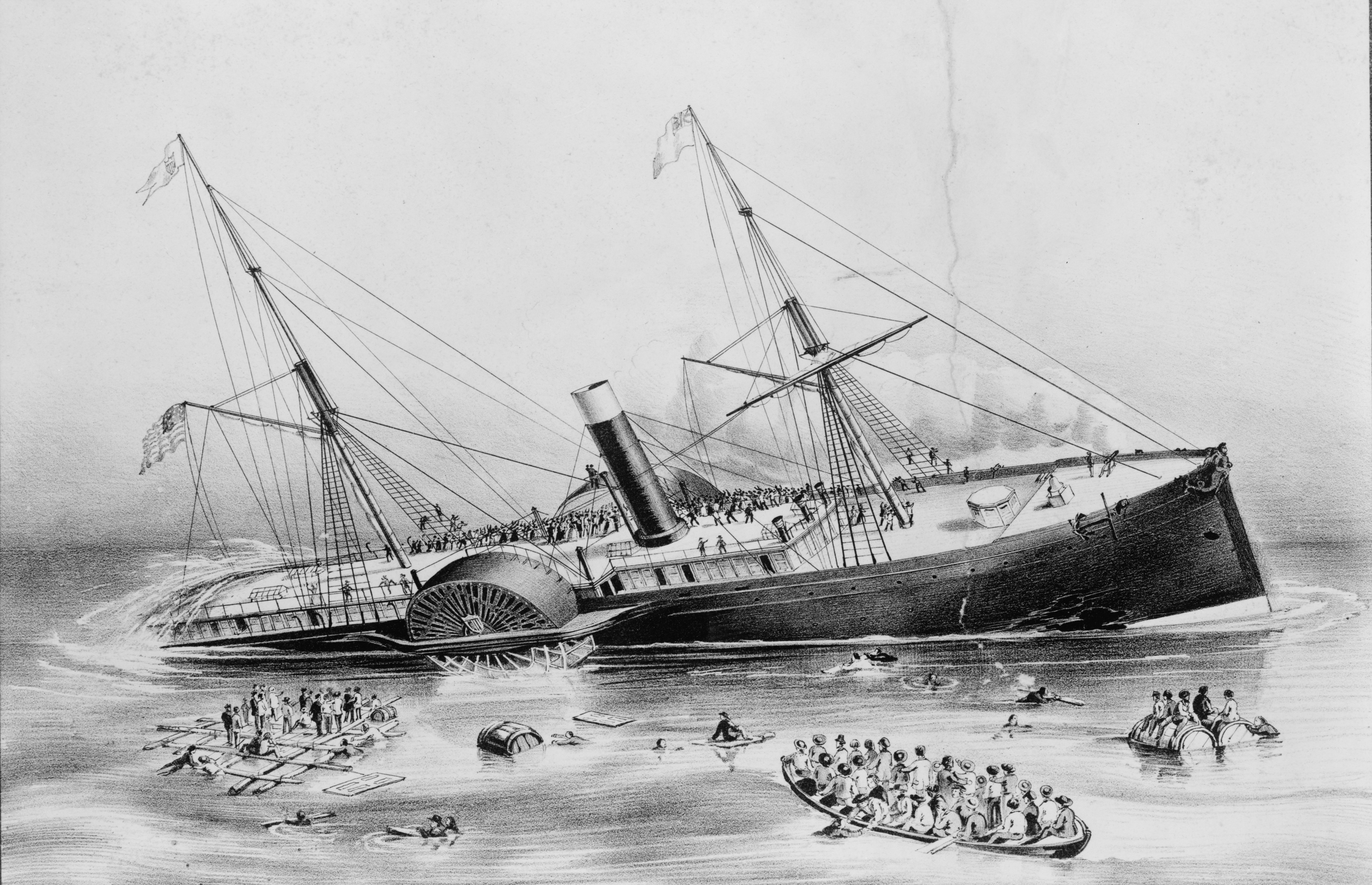 Loss of the U.S. Mail steamship Arctic, 27 September 1854.